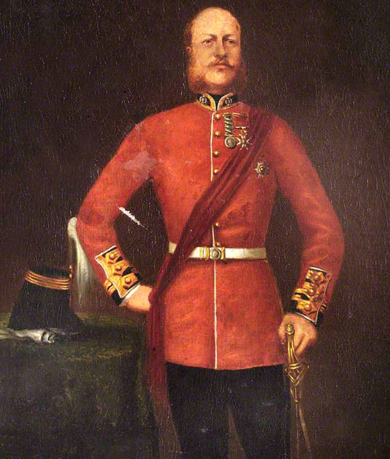 Lieutenant Colonel Poulett Somerset owner of Heath Lodge, Englefield Green circa 1860